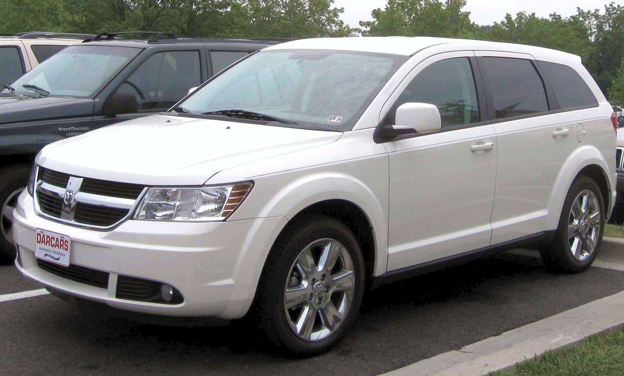 2009 Dodge Journey photographed in USA.